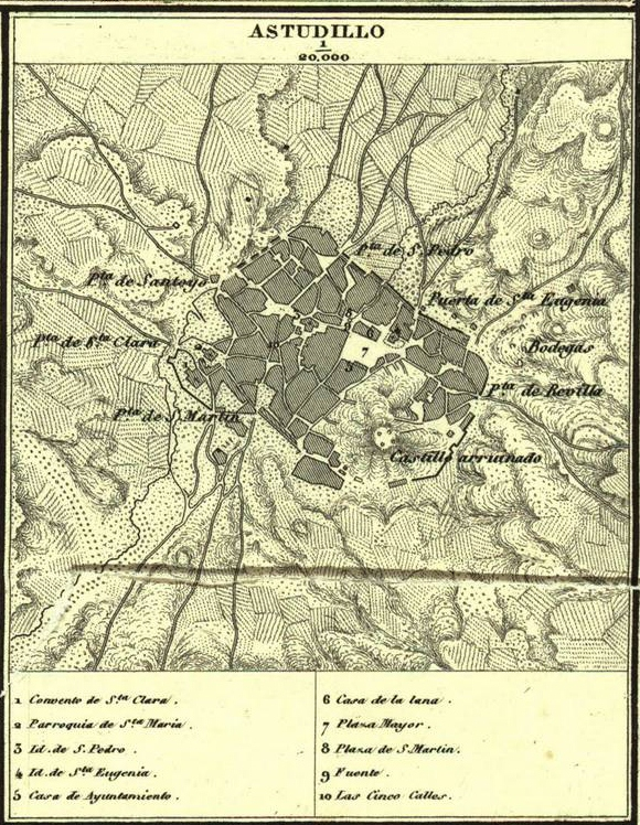 Map of Astudillo cropped from the 1852 province of Palencia map by Francisco Coello